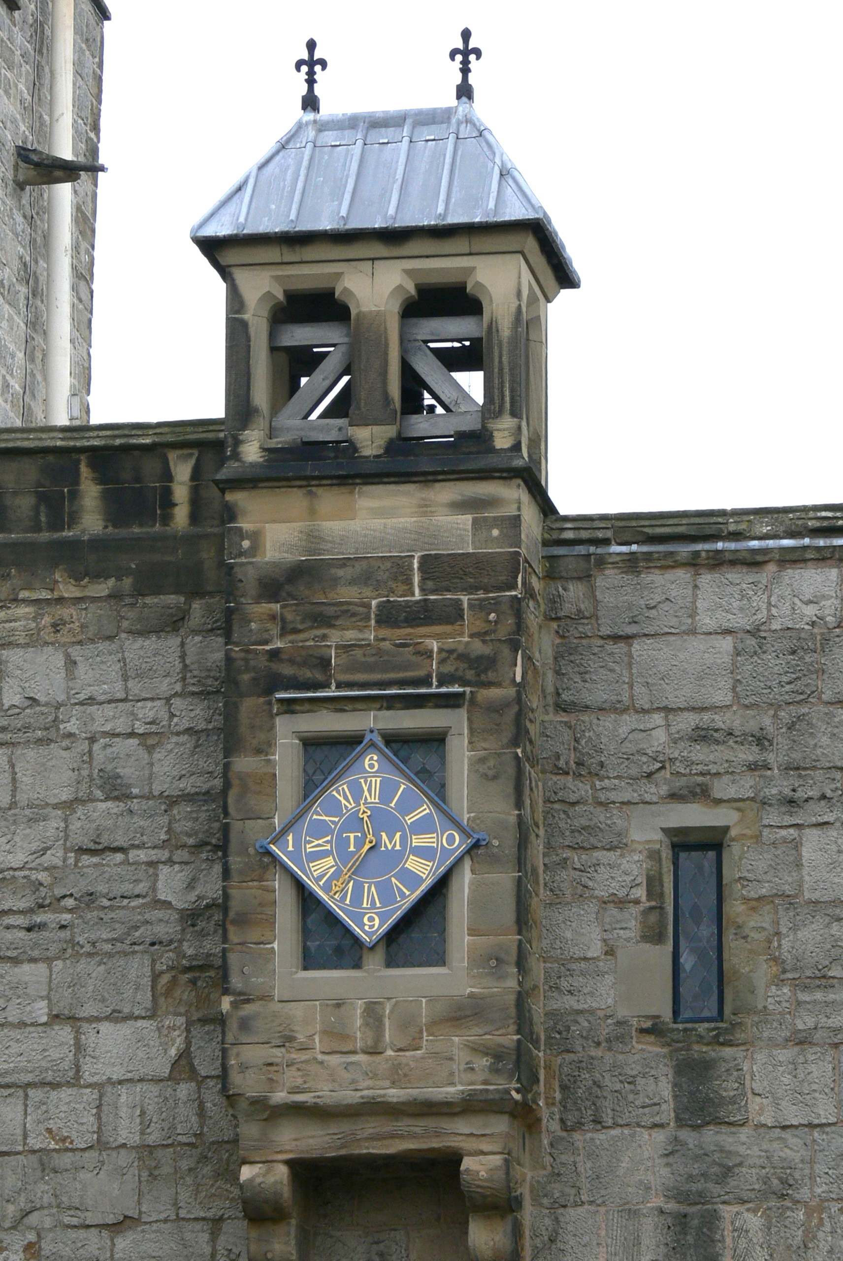 Chirk castle ( Wales ). Clock tower in the inner courtyard.